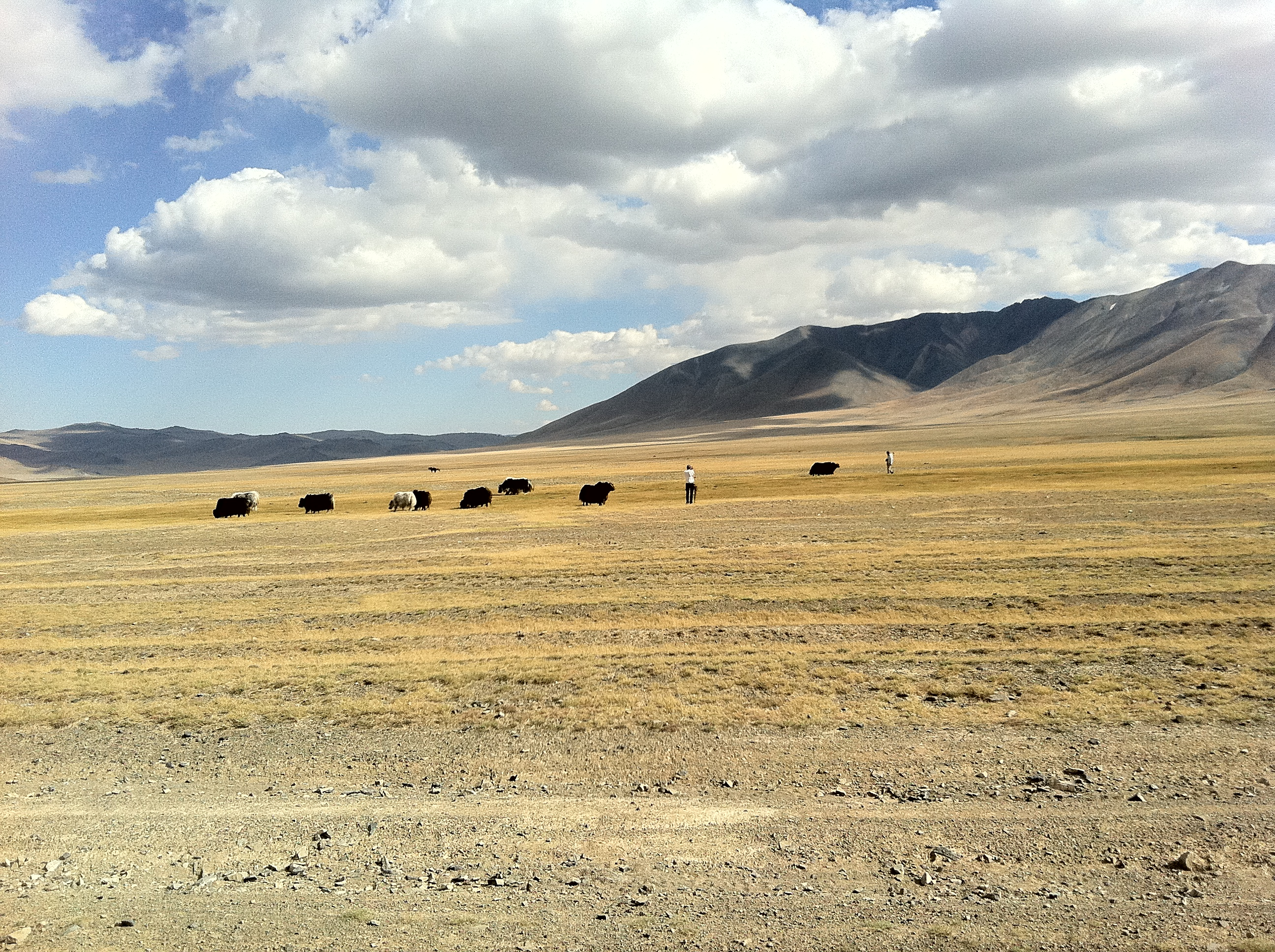 Landscape in Bayan-Ölgii Aimag.